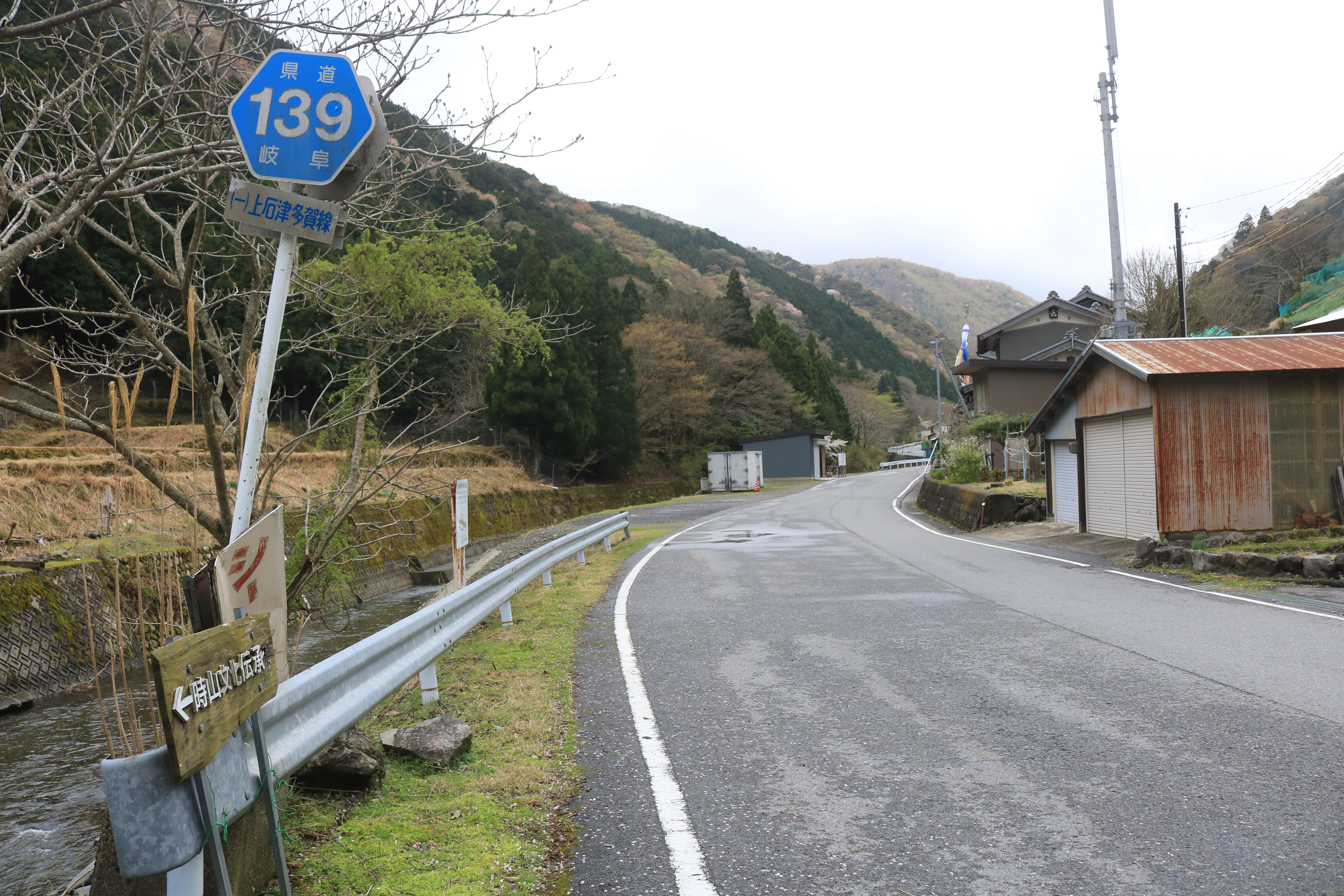 Gifu Prefectural Road Route 139 in Tokiyama, Kamiishizu-cho, Ogaki, Gifu prefecture, Japan.